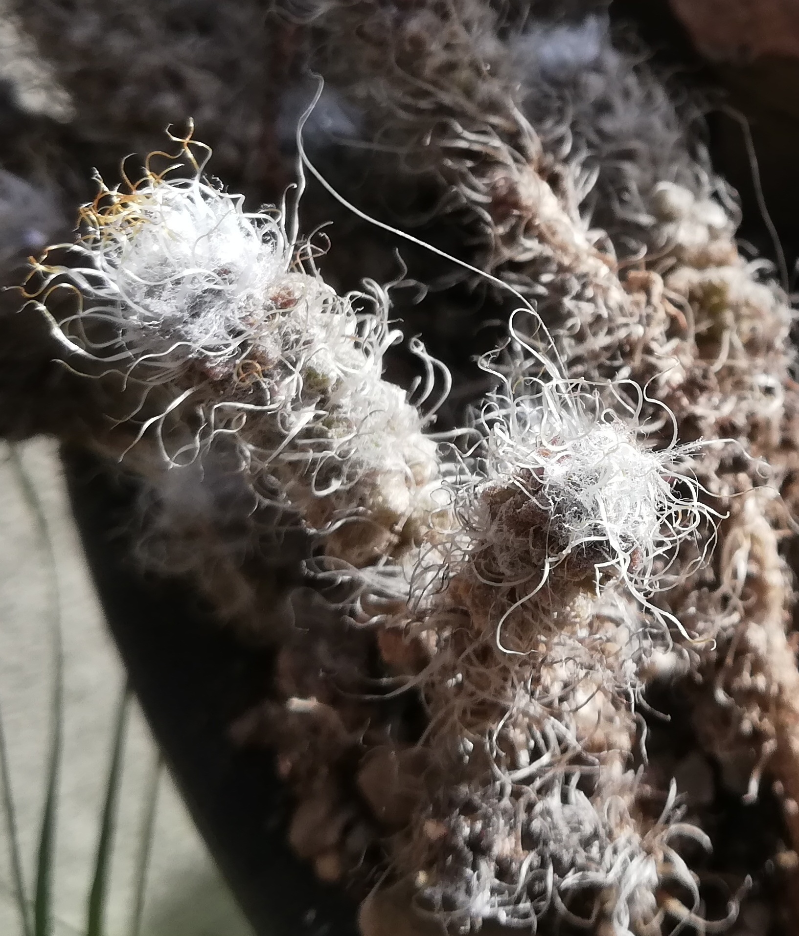 Anacampseros filamentosa from west of the town of Ladismith